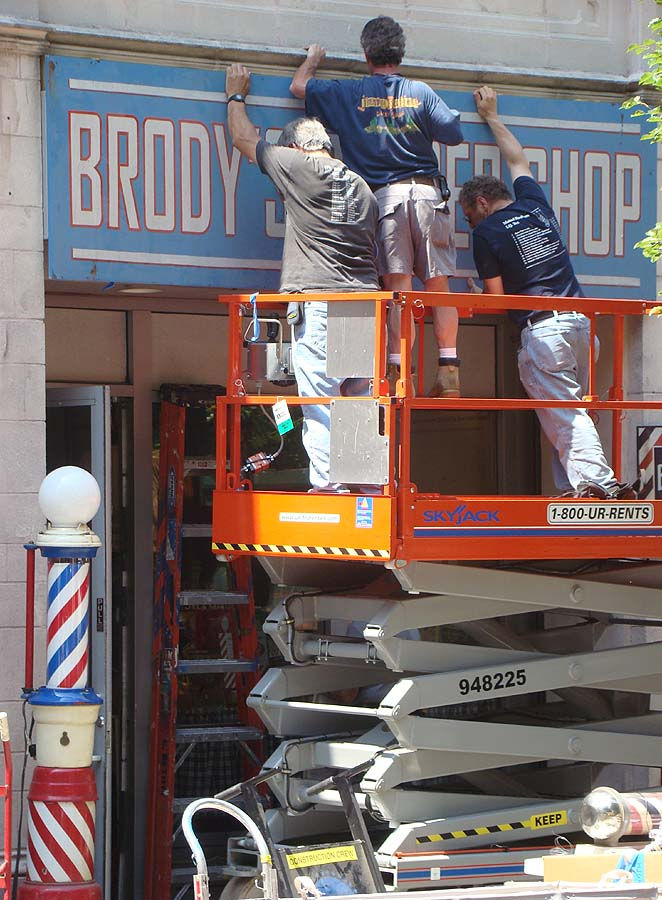 Producion crew working on the 4th Indiana Jones movie convert store fronts in downtown New Haven, Connecticut so they can be used in a scene set to take place in the 1950s.